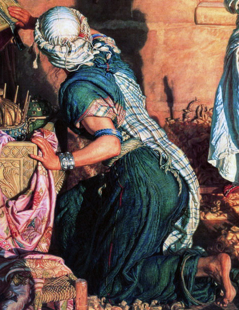 William Holman Hunt - The Shadow of Death (1870) Mary detail.